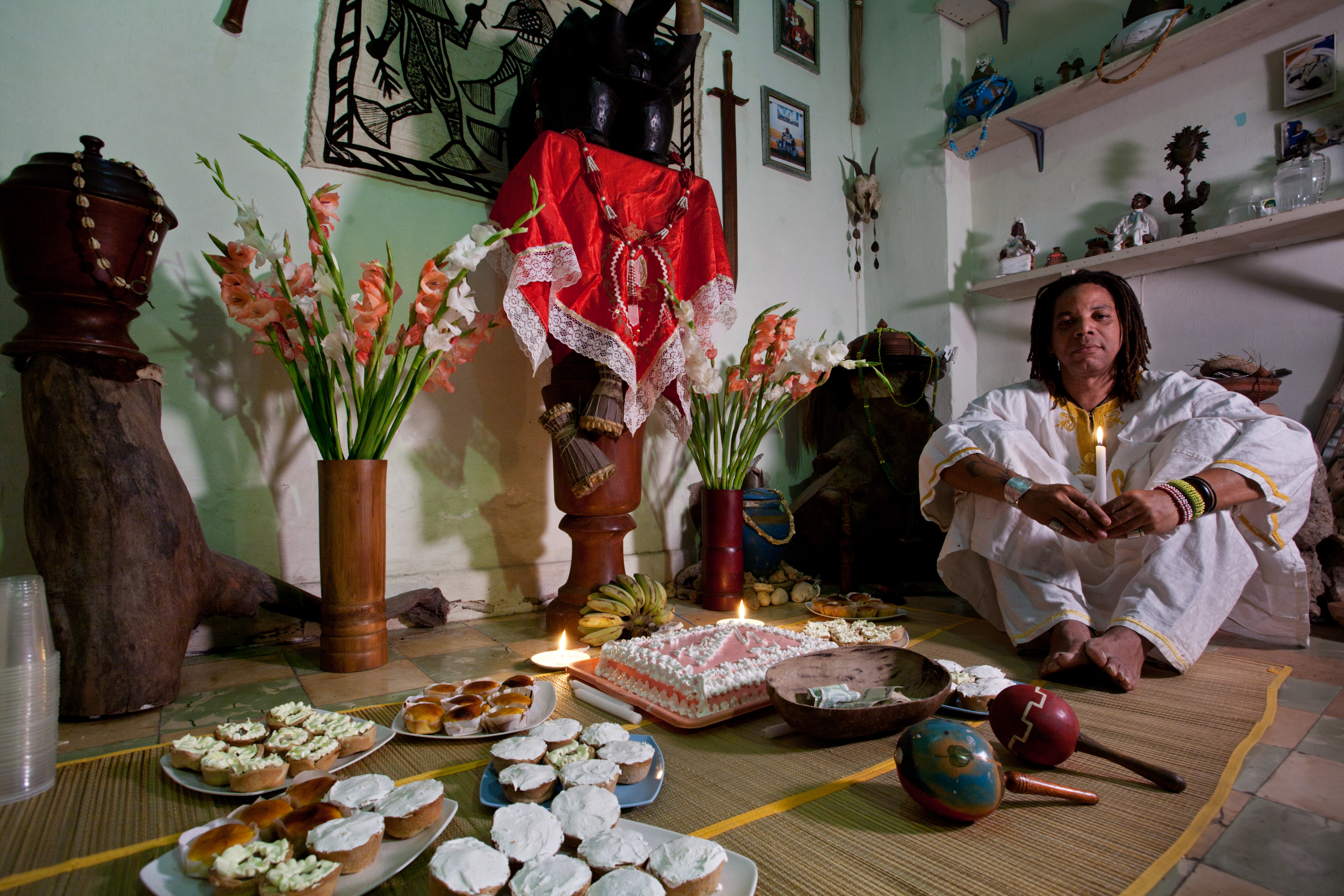 Baptized in Santeria a man is reborn with a different name and for the first year has to wear white. Here, the birthday party of Lazaro Salsita, born 15 years ago in the body of Lazaro Medina Hernandez, 35, Sculptor. Havana (La Habana), Cuba